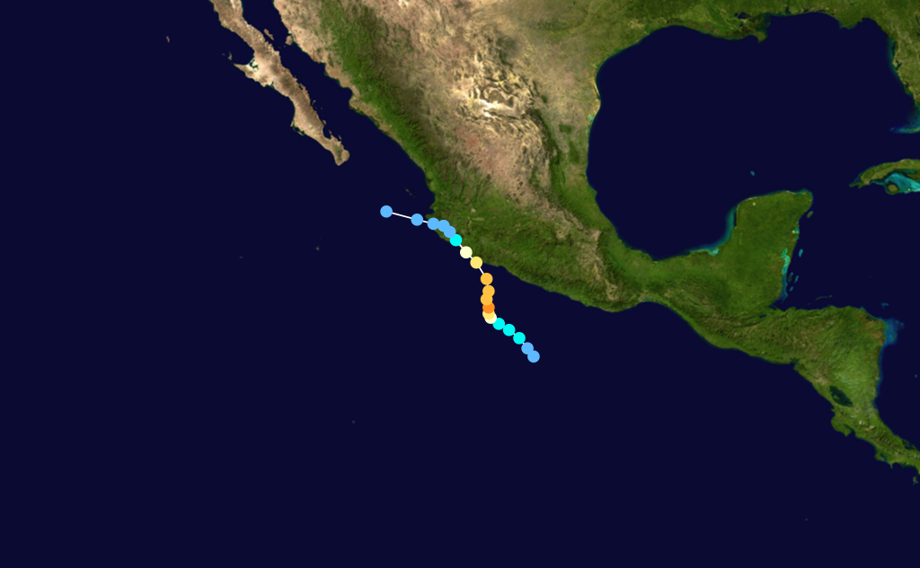 Hurricane Virgil (1992) track. Uses the color scheme from the Saffir-Simpson Hurricane Scale.